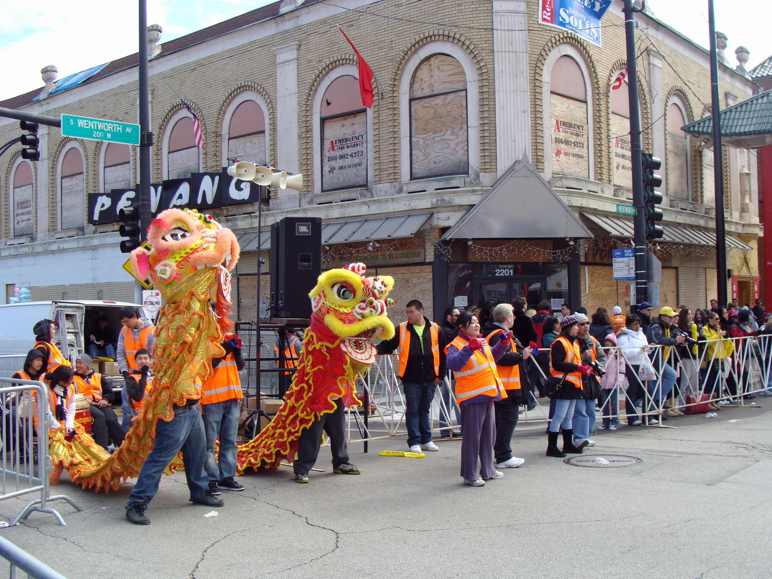 Two Chinese dragons greet runners of the 2009 Chicago Marathon as they enter Chinatown